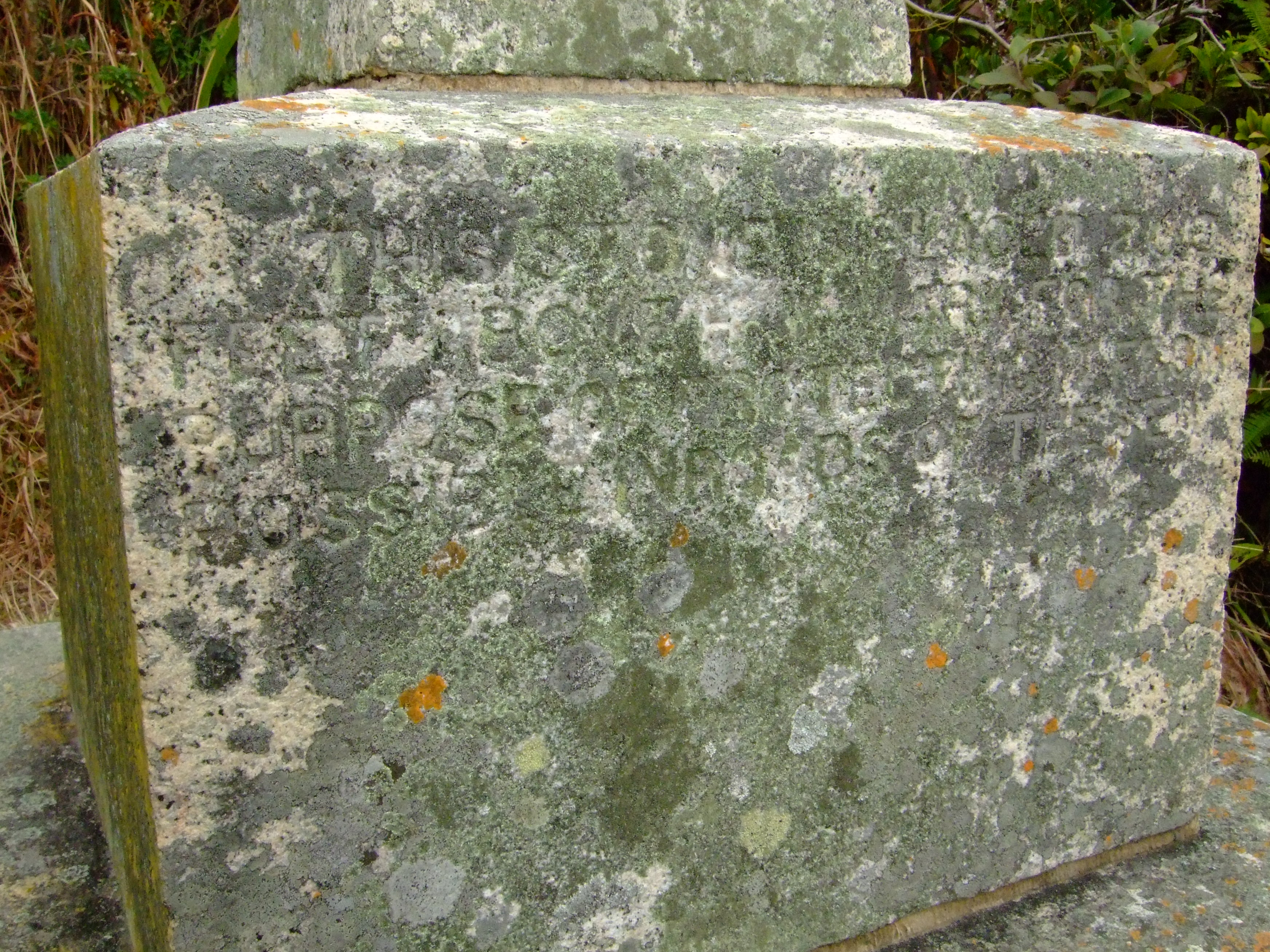 The epigraph of the obelisk placed at the southwest coast of Lantau Island, Hong Kong at year 1902. It states the boundary of Hong Kong.